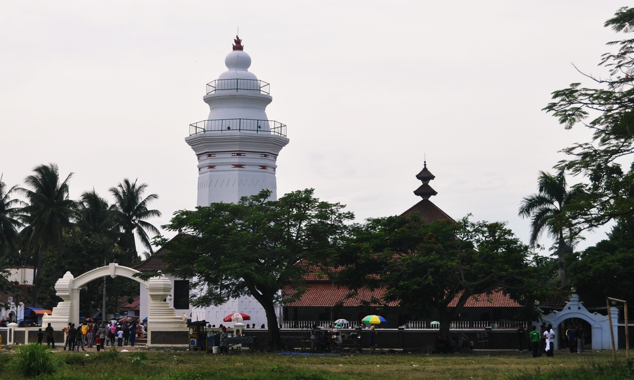 The Great Mosque of Banten, from east side